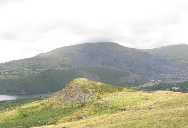 An Iron Age Fort overlooking Llyn Padarn.